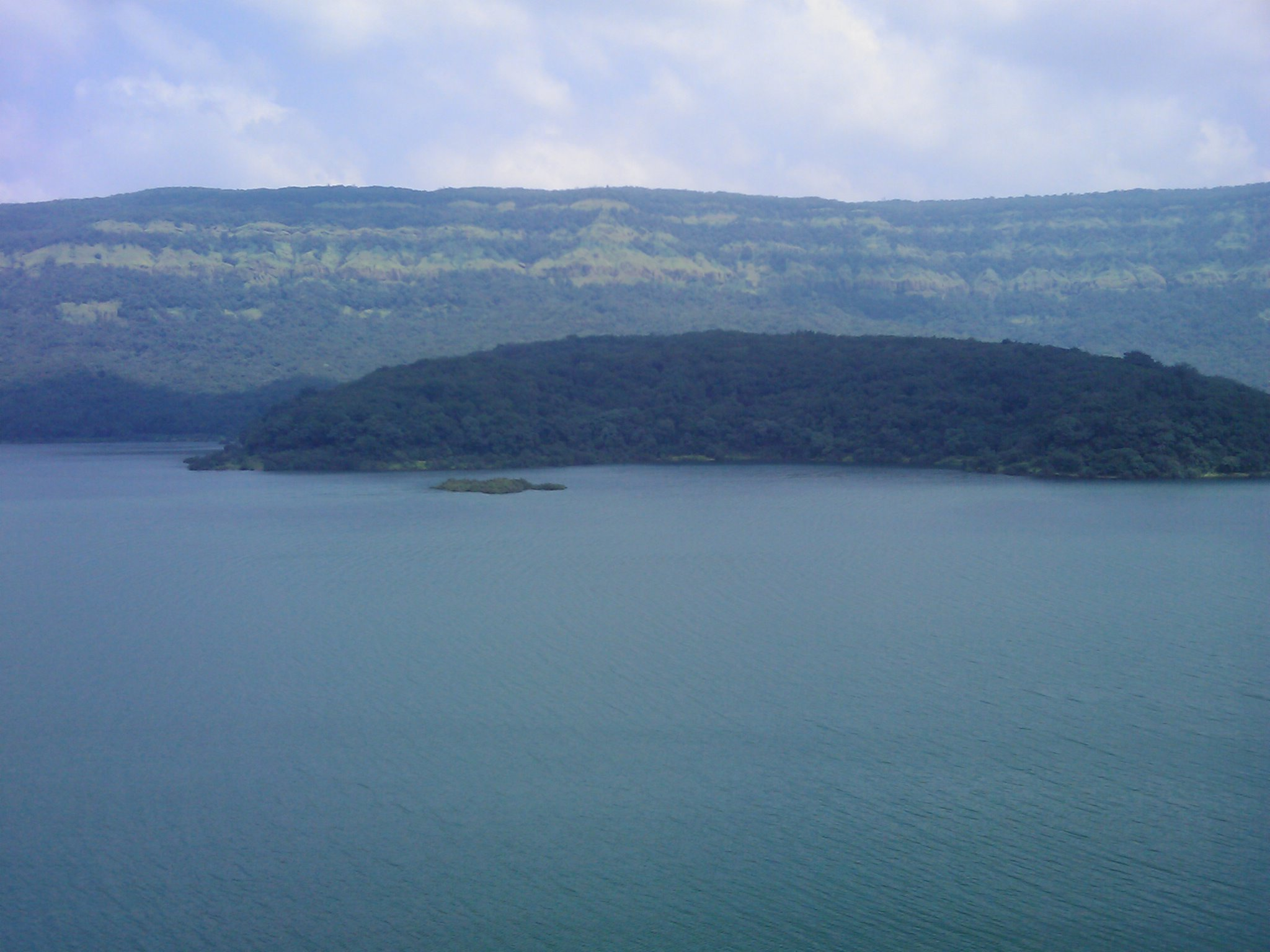 A view of Shivasagar lake